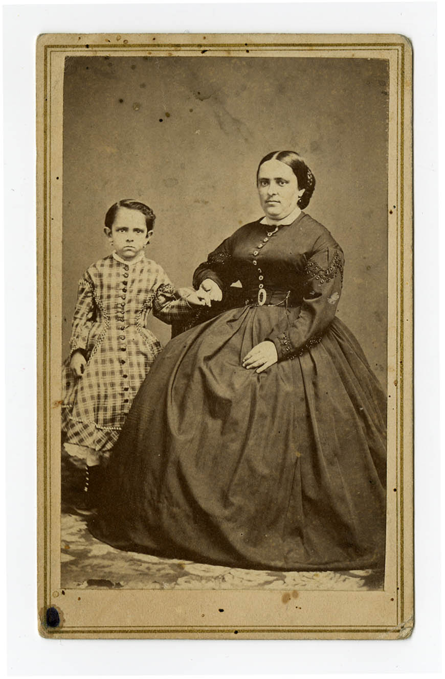 Repository: California Historical Society Collection: Portraits from the Reginaldo F. del Valle papers Date: Undated Format: Carte de visite Call number: MSP 2230 Digital object ID: MSP2230_004.jpg Preferred citation: [Ysabel del Valle with child], Portraits from the Reginaldo F. del Valle papers, MSP 2230, courtesy, California Historical Society, MSP2300_004.jpg.